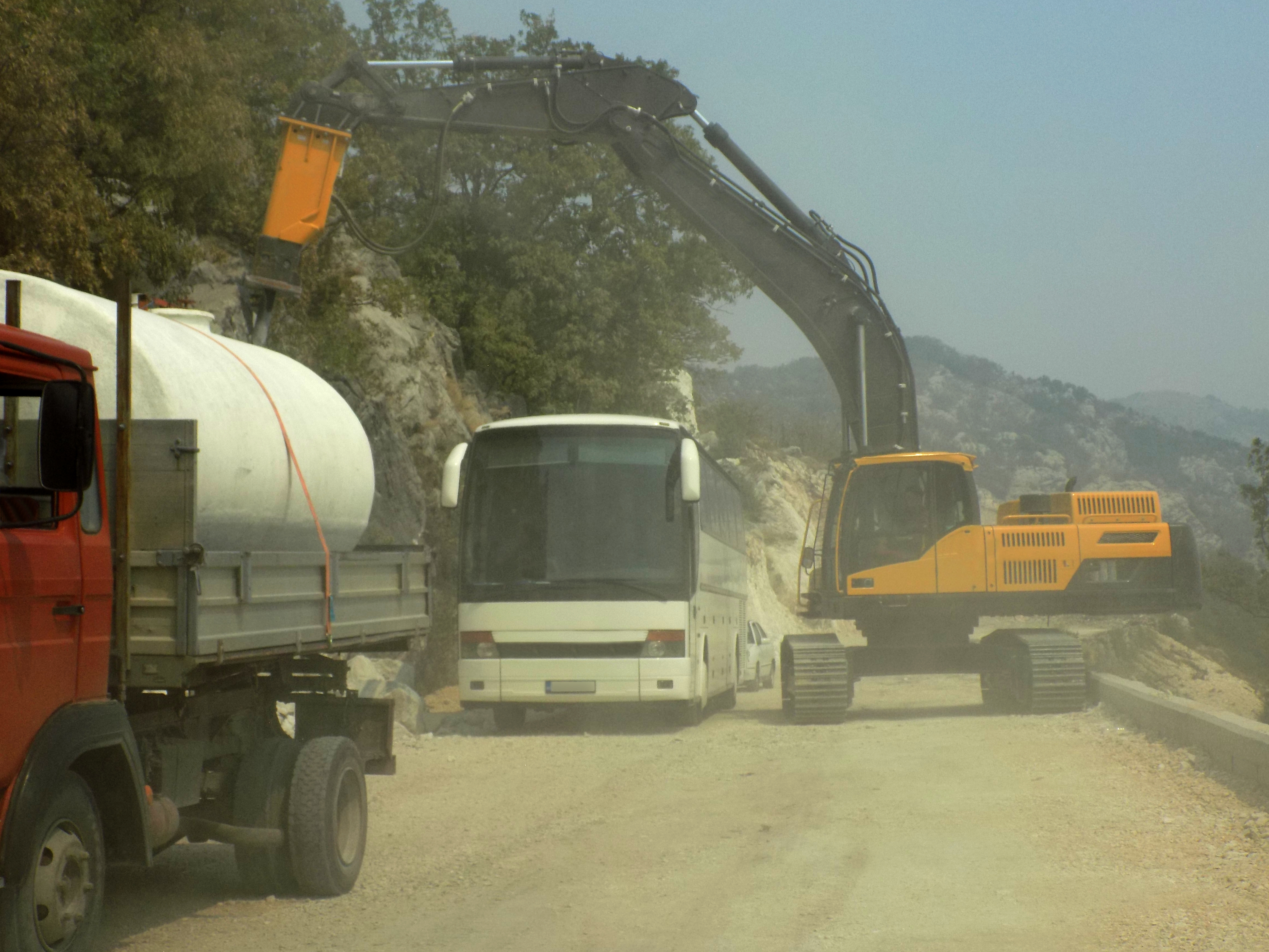 R-1 regional road (Montenegro) - reconstruction of the Cetinje-Njeguši section in 2017